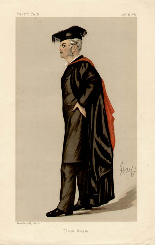 Caricature of Reverend Henry Arthur Morgan DD (1830-1912). Caption read "Black Morgan" Morgan was Master of Jesus College, Cambridge.